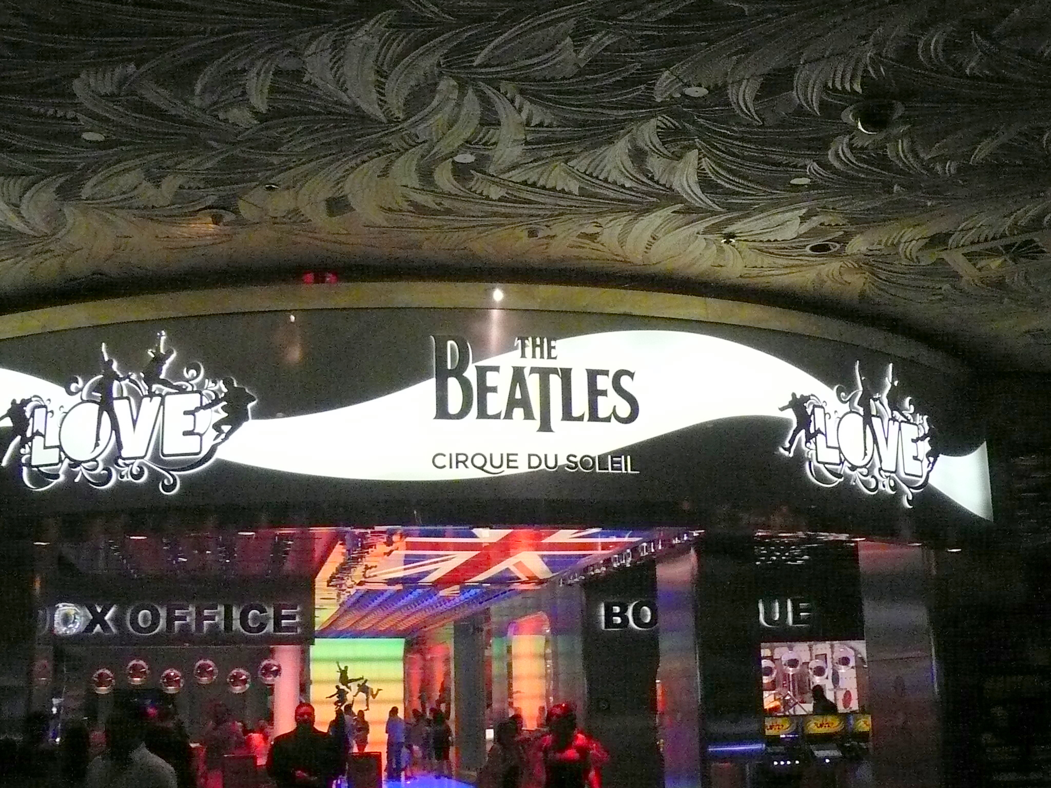 Feel free to reuse this photo. If you do reuse it please consider linking to Love Cirque du Soleil Show Theatre Mirage Hotel Las Vegas